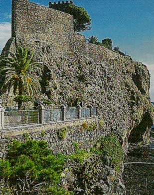 Image released in the public domain by user LuckyLisp (author of the photo)